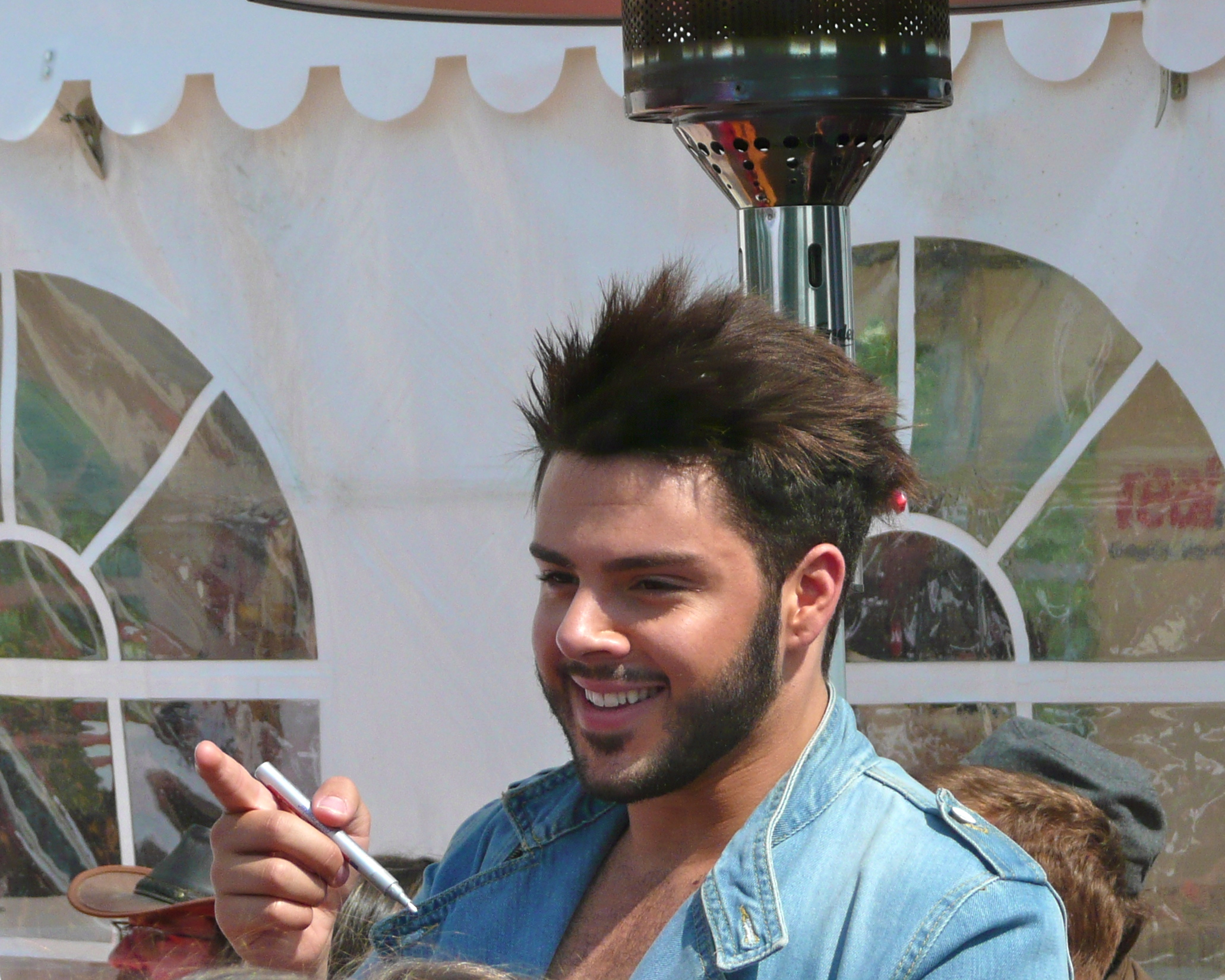 Pino Severino